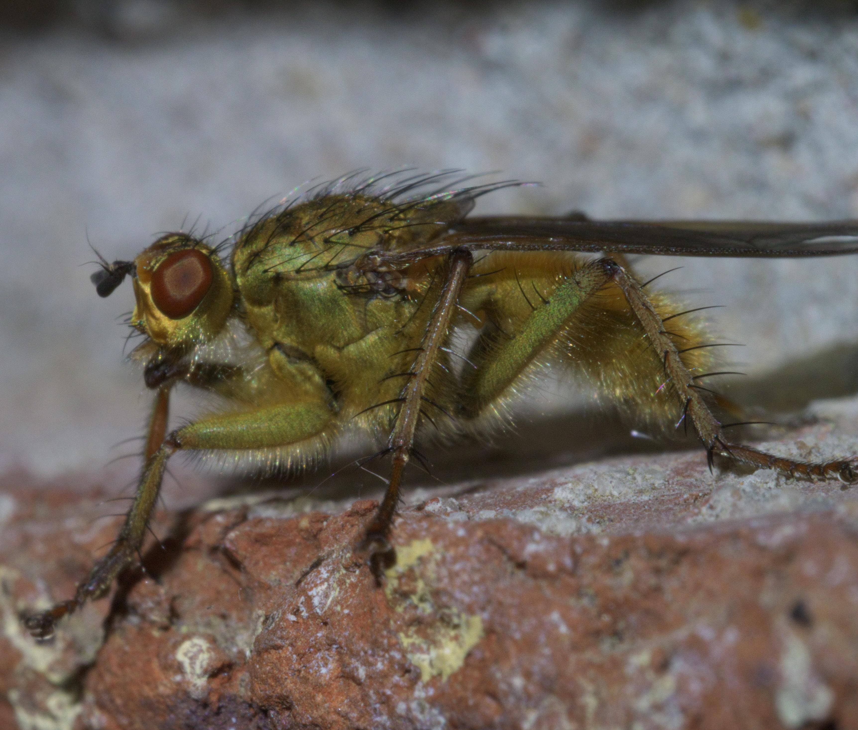 Scathophaga stercoraria, golden dung fly, ID Confidence: 88